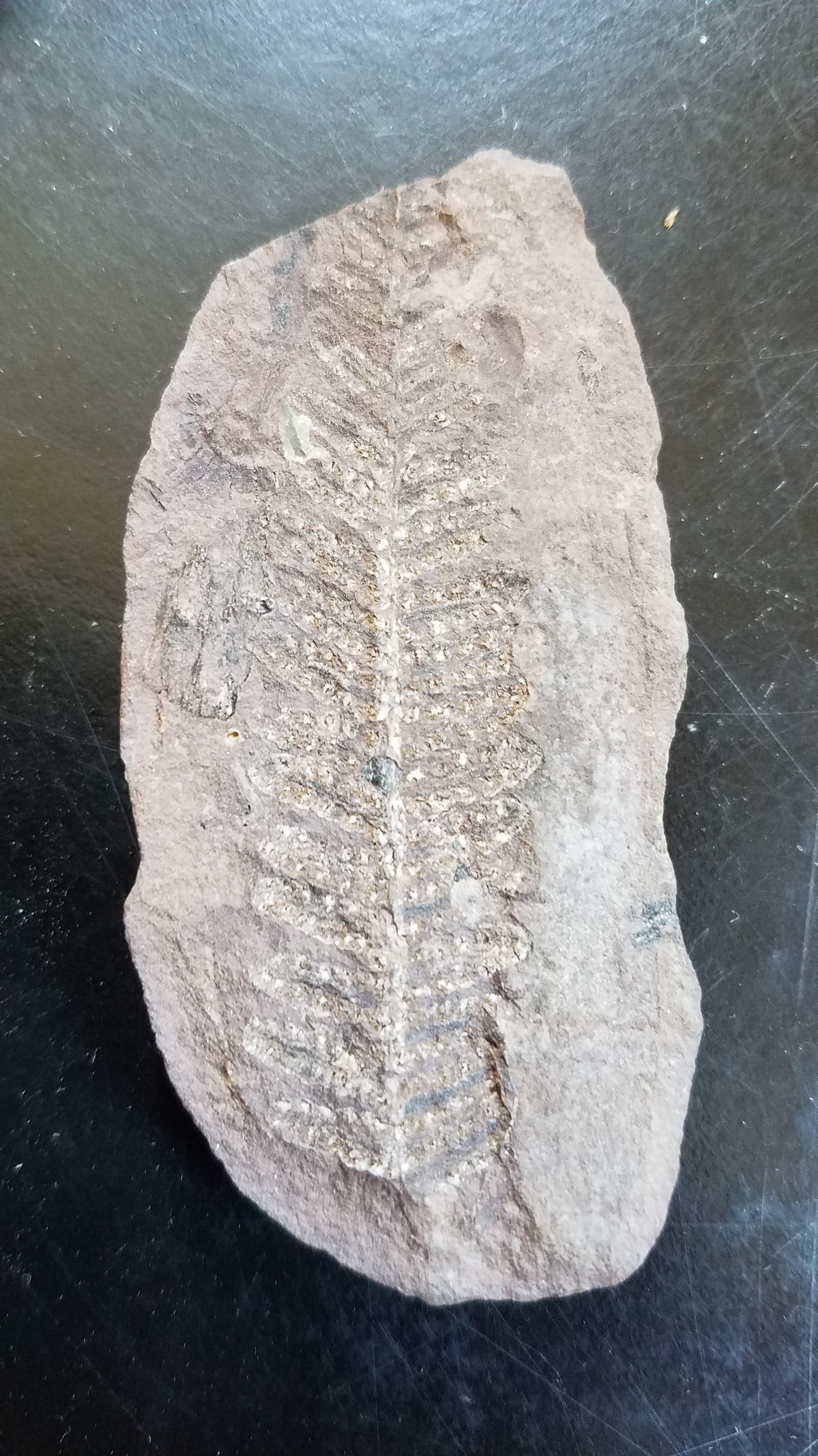 Asterotheca cyathea - note the sporangia